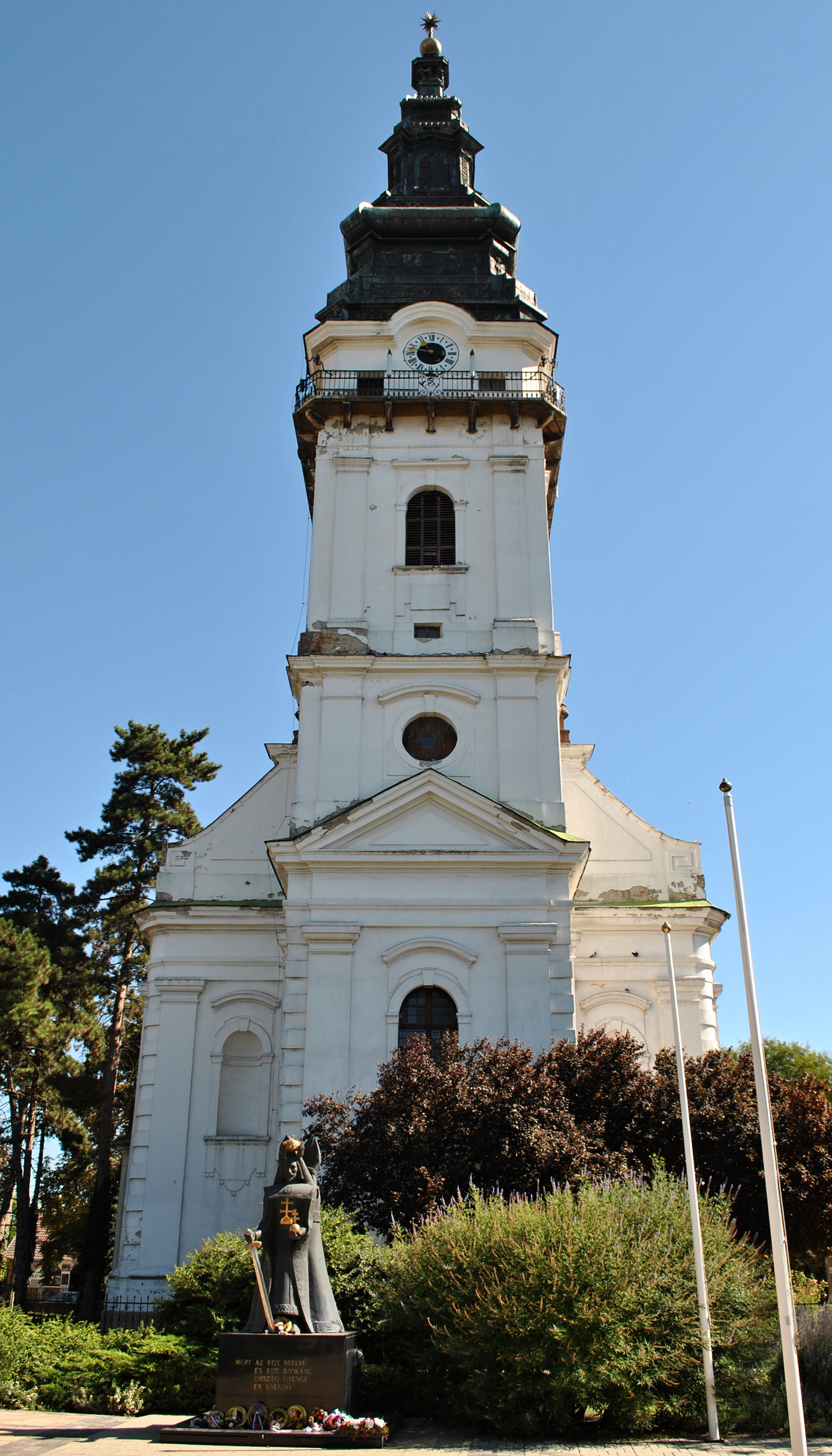 Tótkomlós, Hungary - Evangelical church